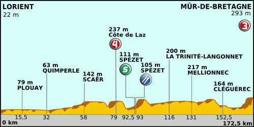 Profil of the 4th stage of the Tour de France 2011